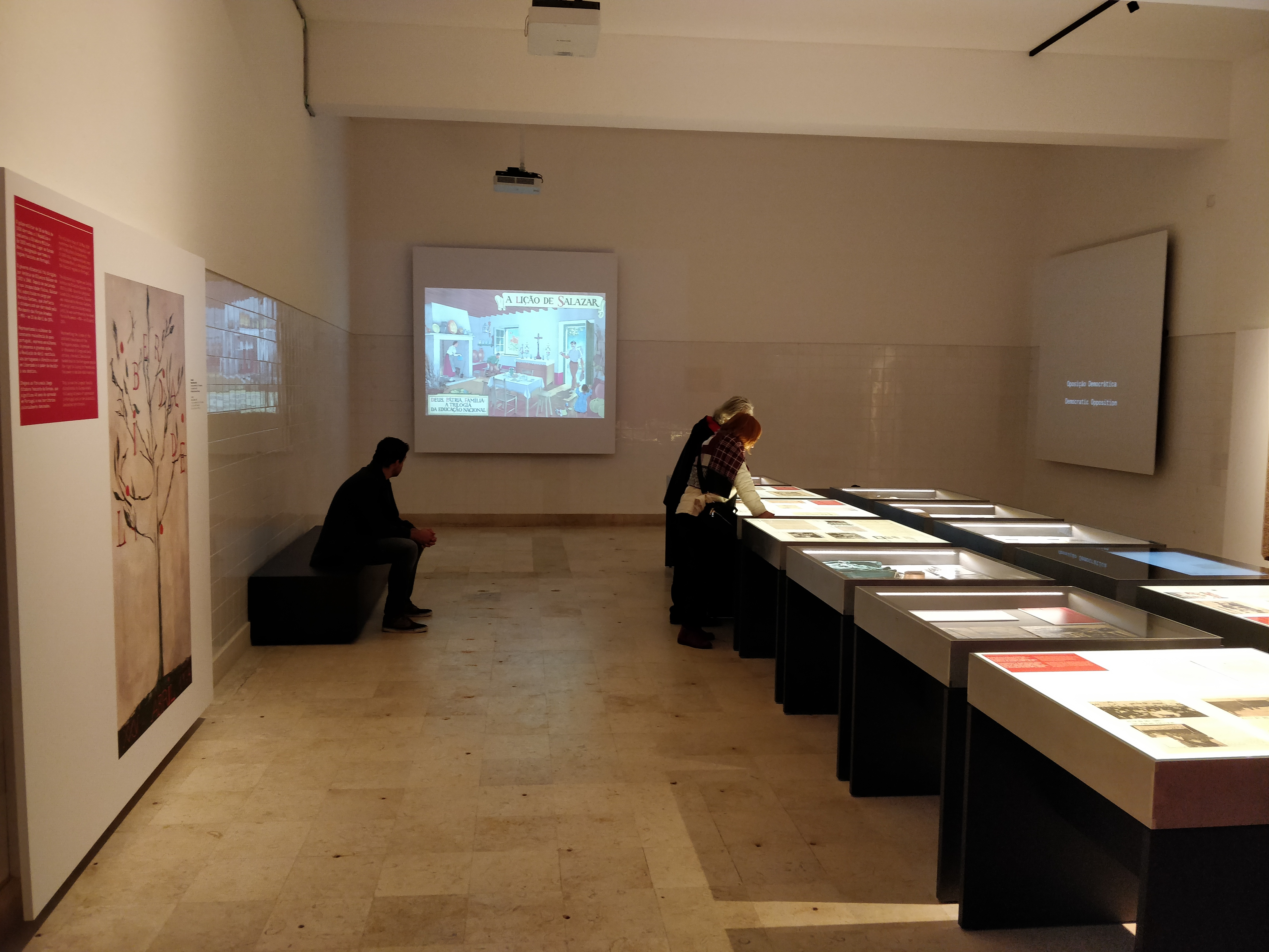 An exhibition relating to the use of Peniche Fortress as a prison during Portugal's military dictatorship, the Estado Novo